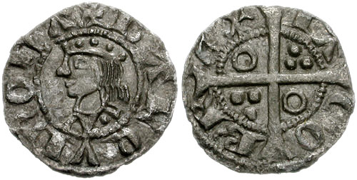 Spain, Cataluña. Jaume el Conqueridor (the Conqueror). 1213-1276. BI Dinero (17mm, 0.79 g, 11h). Barcelona mint. +•BARQVINONA, crowned bust left IACOB REX, long cross cross pattée; annulets and in quarters. Crusafont 155; ME 1710; Burgos 855. Good VF, darkly toned.